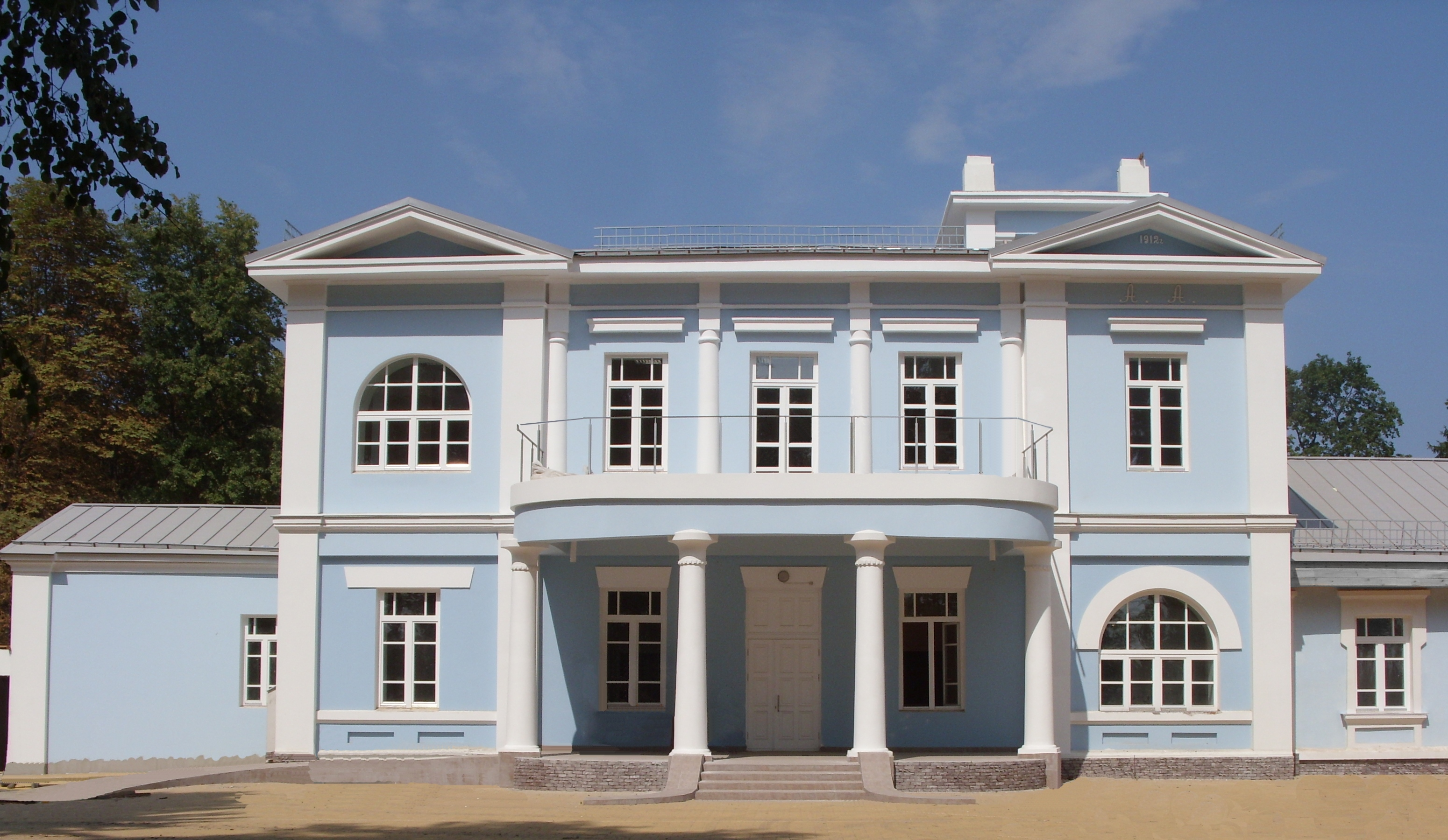 Museum in Chojniki. Former estate of family Abrahamovy